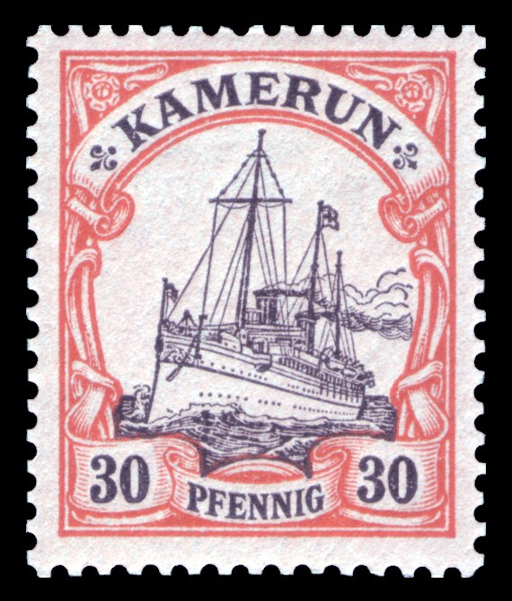 stamp series for German Colonies Ausgabepreis: 30 Pfennig First Day of Issue / Erstausgabetag: November 1900 Michel-Katalog-Nr: 12 (Deutsche Kolonie Kamerun)